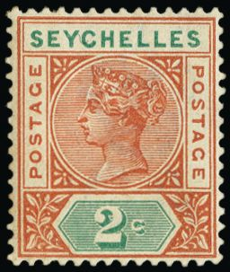 1897-1900 2c orange-brown and green, variety 'Repaired S' from left pane, R7/3. Maximum of 504 possible, with a low survival rate.